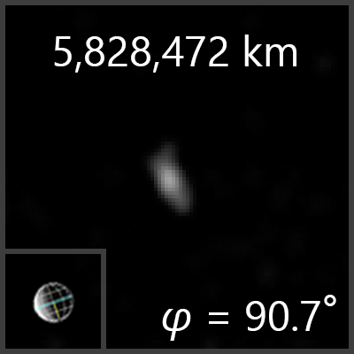 New Horizons LORRI image of Jupiter's outer moon Elara, resolved as a disc. Elara is illuminated from the left, with a phase angle (denoted φ) of 90.7. This image been bicubically scaled 4x and digitally processed from raw images taken on 5 March 2007. The raw images can be downloaded from NASA's PDS Small Bodies Node